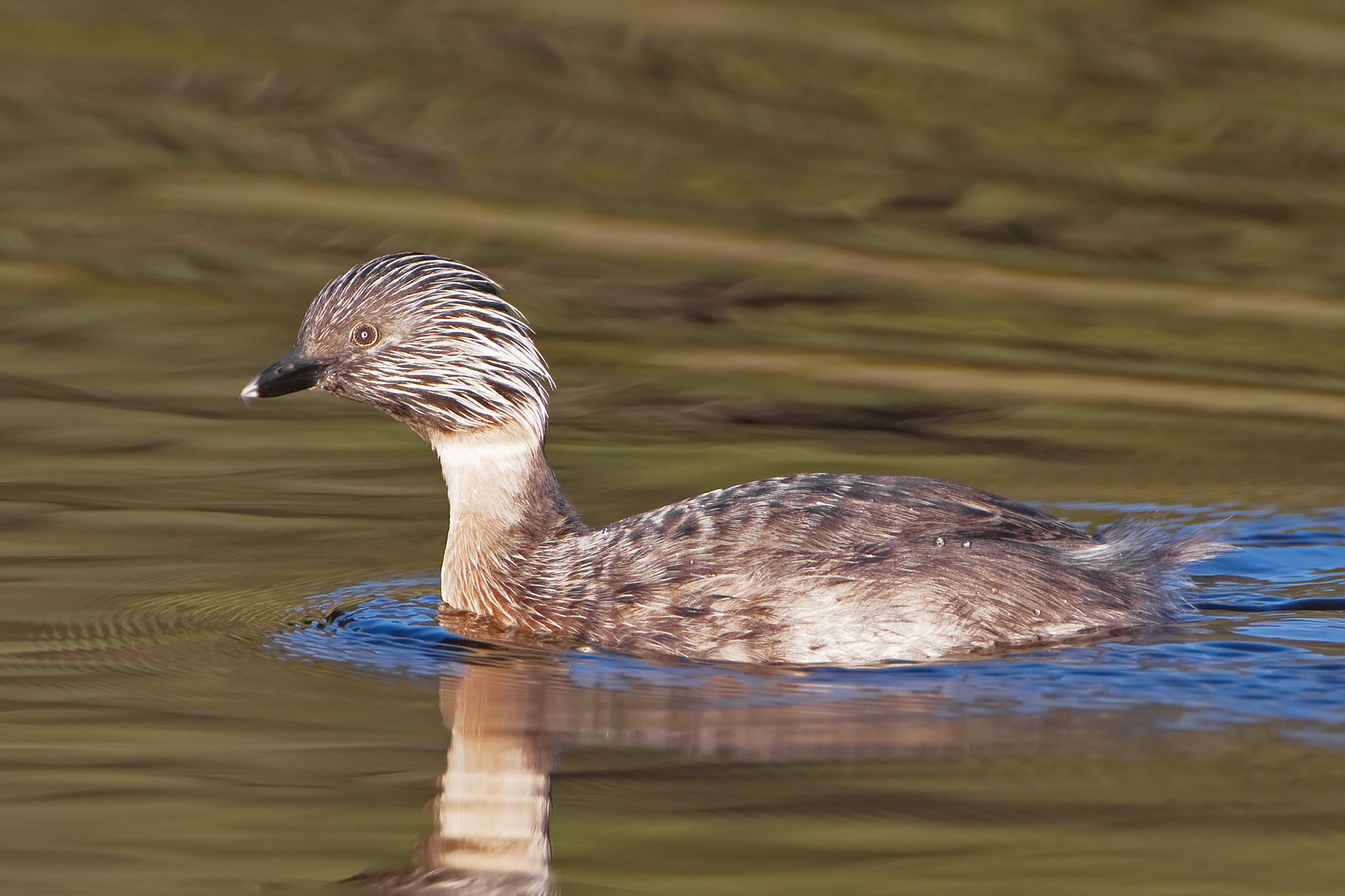 Hoary-headed Grebe (Poliocephalus poliocephalus), Risdon Brook Park, Tasmania, Australia